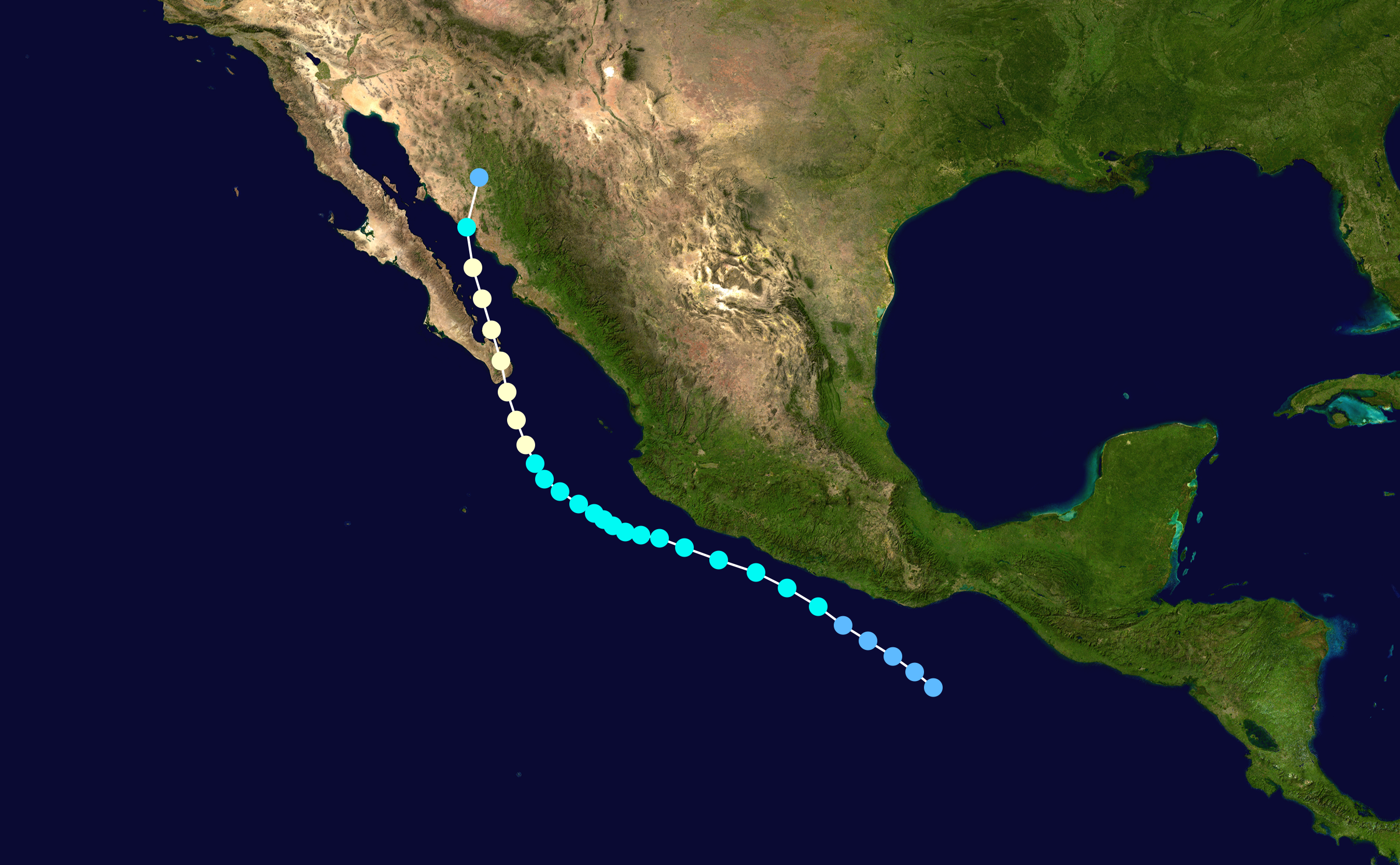 Track map of Hurricane Henriette of the 2007 Pacific hurricane season. The points show the location of the storm at 6-hour intervals. The colour represents the storm's maximum sustained wind speeds as classified in the Saffir–Simpson scale (see below), and the shape of the data points represent the nature of the storm, according to the legend below. Saffir–Simpson scale Tropical depression≤38 mph≤62 km/h Category 3111–129 mph178–208 km/h Tropical storm39–73 mph63–118 km/h Category 4130–156 mph209–251 km/h Category 174–95 mph119–153 km/h Category 5≥157 mph≥252 km/h Category 296–110 mph154–177 km/h Unknown Storm type Tropical cyclone Subtropical cyclone Extratropical cyclone / Remnant low / Tropical disturbance / Monsoon depression